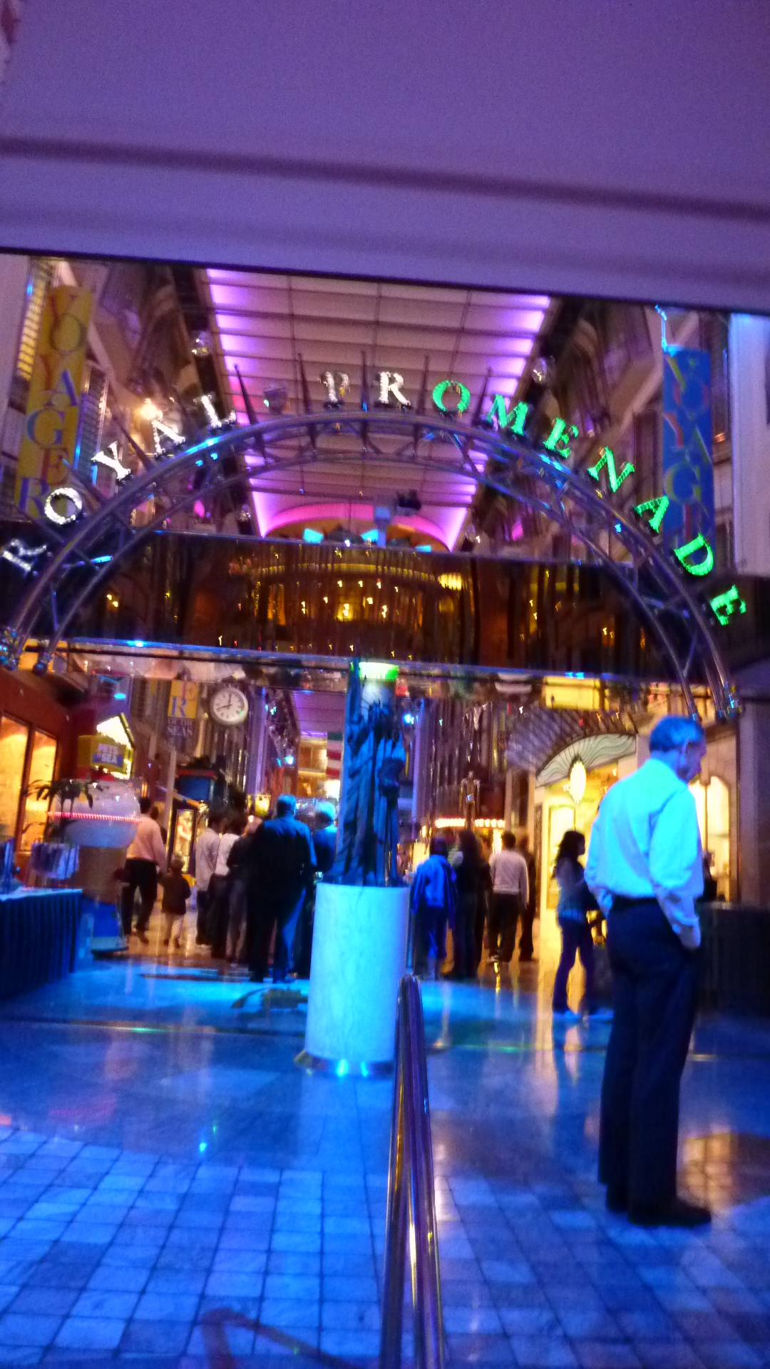 Royal Promenade on Voyager of the Seas